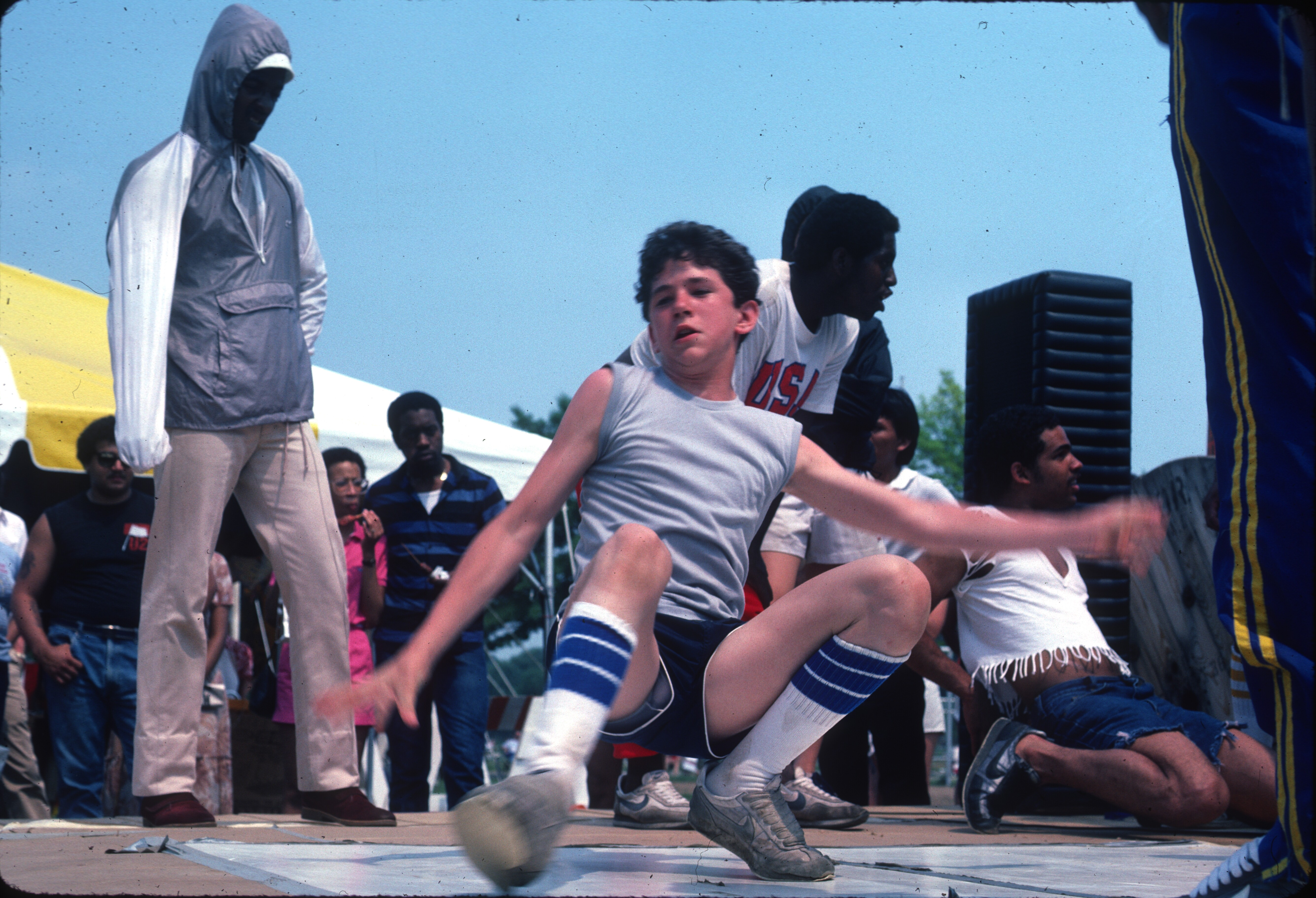 Urban Dance images collected by City Lore